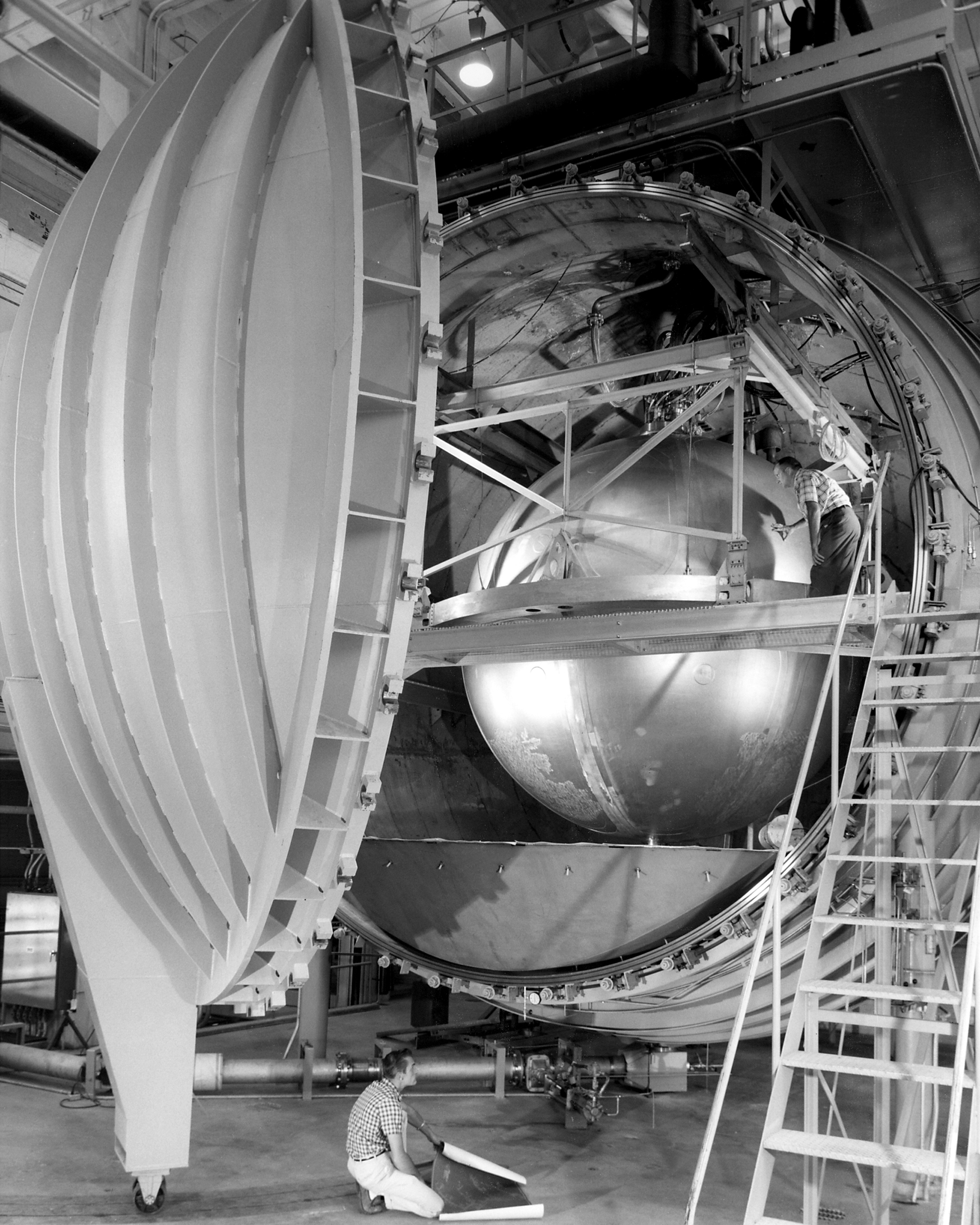 Thirteen foot hydrogen tank mounted in K-Site Test Chamber at Plum Brook Station, Lewis Research Center now known as Glenn Research Center.